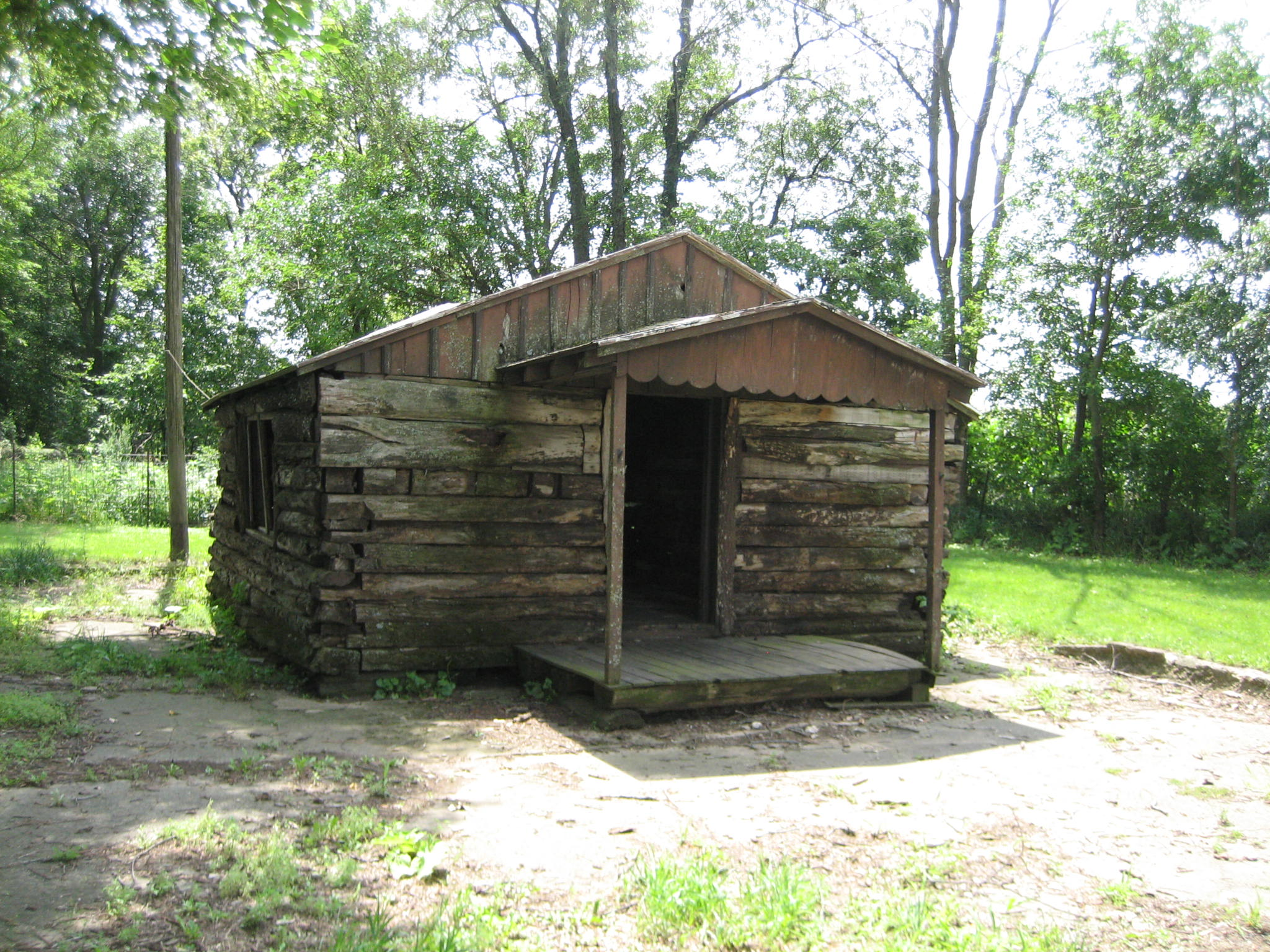 Kellogg's Grove, near Kent, Illinois, USA. Site of the Battle of Kellogg's Grove during the Black Hawk War. Site includes 56 acres and a monument and graves of those in the militia that died. The cabin was moved from its original site to the park where the monument is located. U.S. National Register of Historic Places.